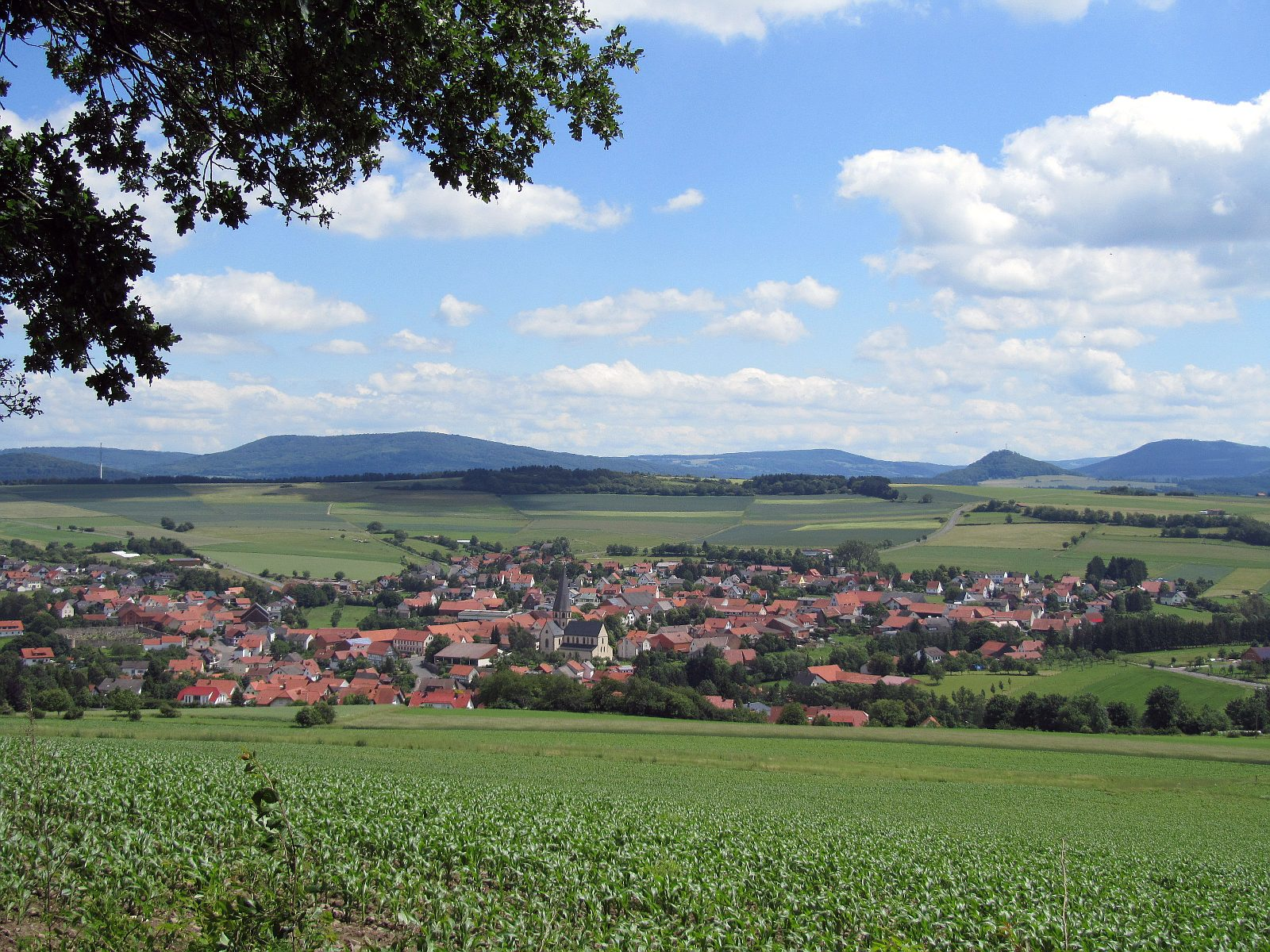 Germany Hesse: village Rasdorf in the Rhön Mountains